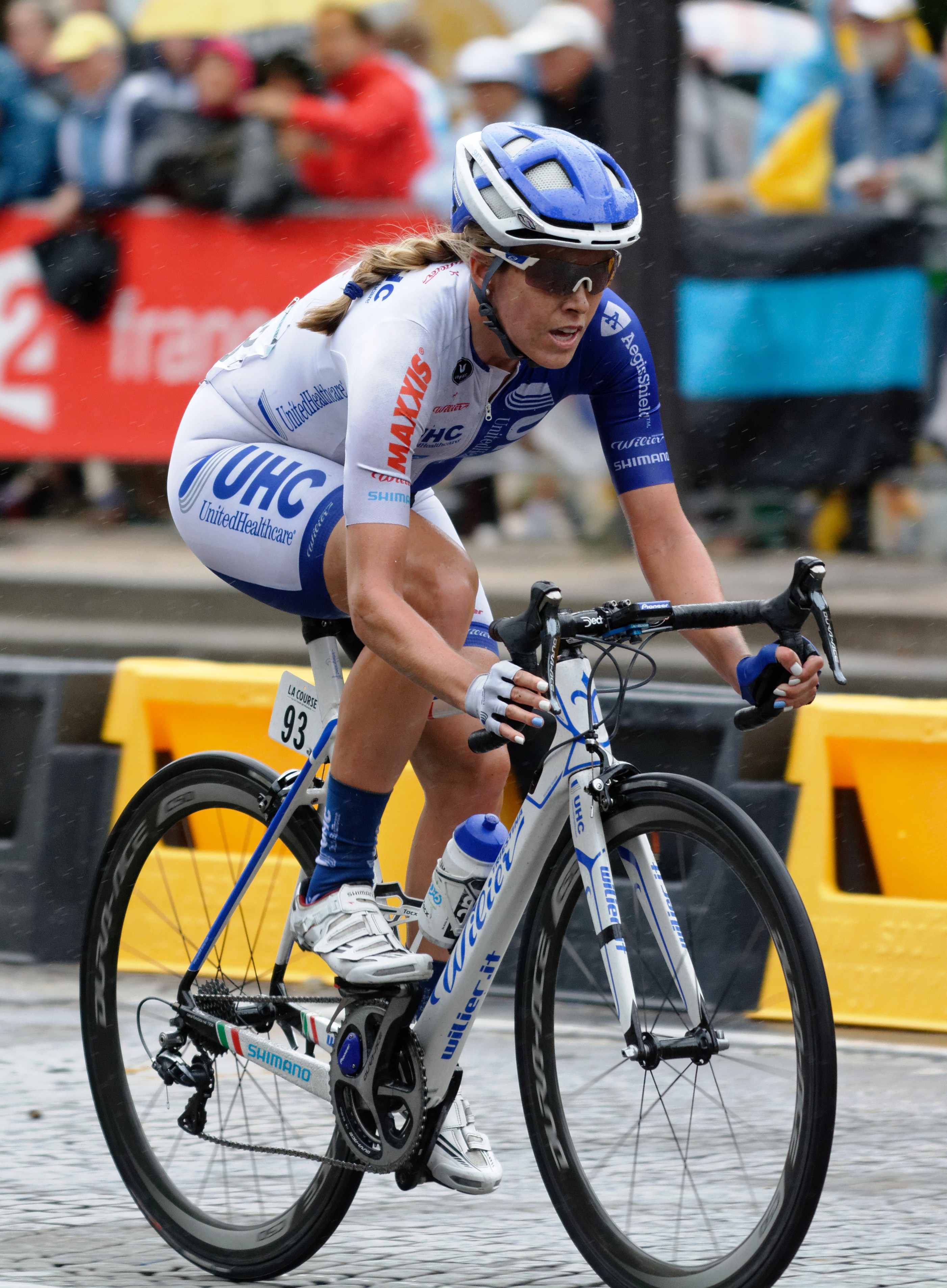 Rushlee Buchanan, cyclist from New Zealand